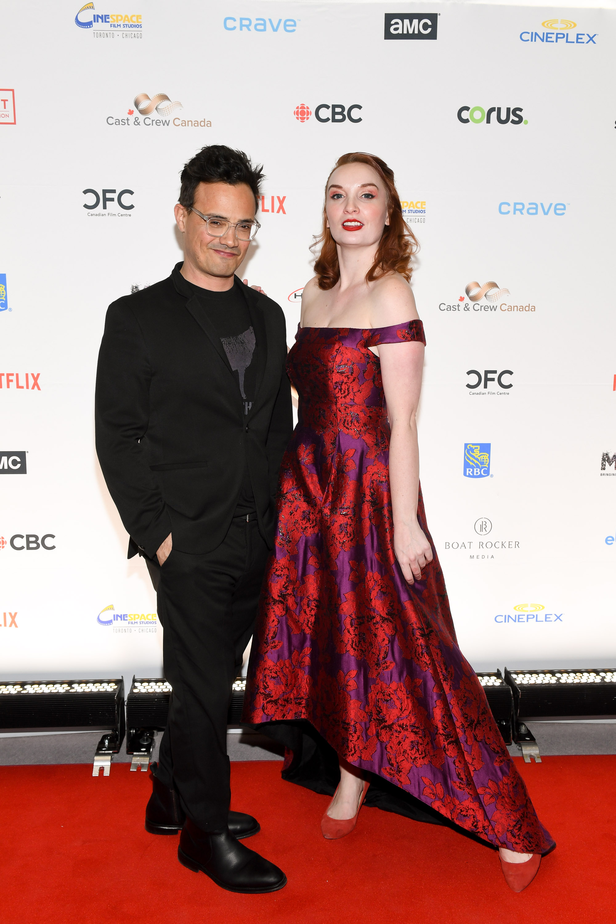 Actors Fab Filippo and Alice Moran at 2020 CFC Annual Gala & Auction